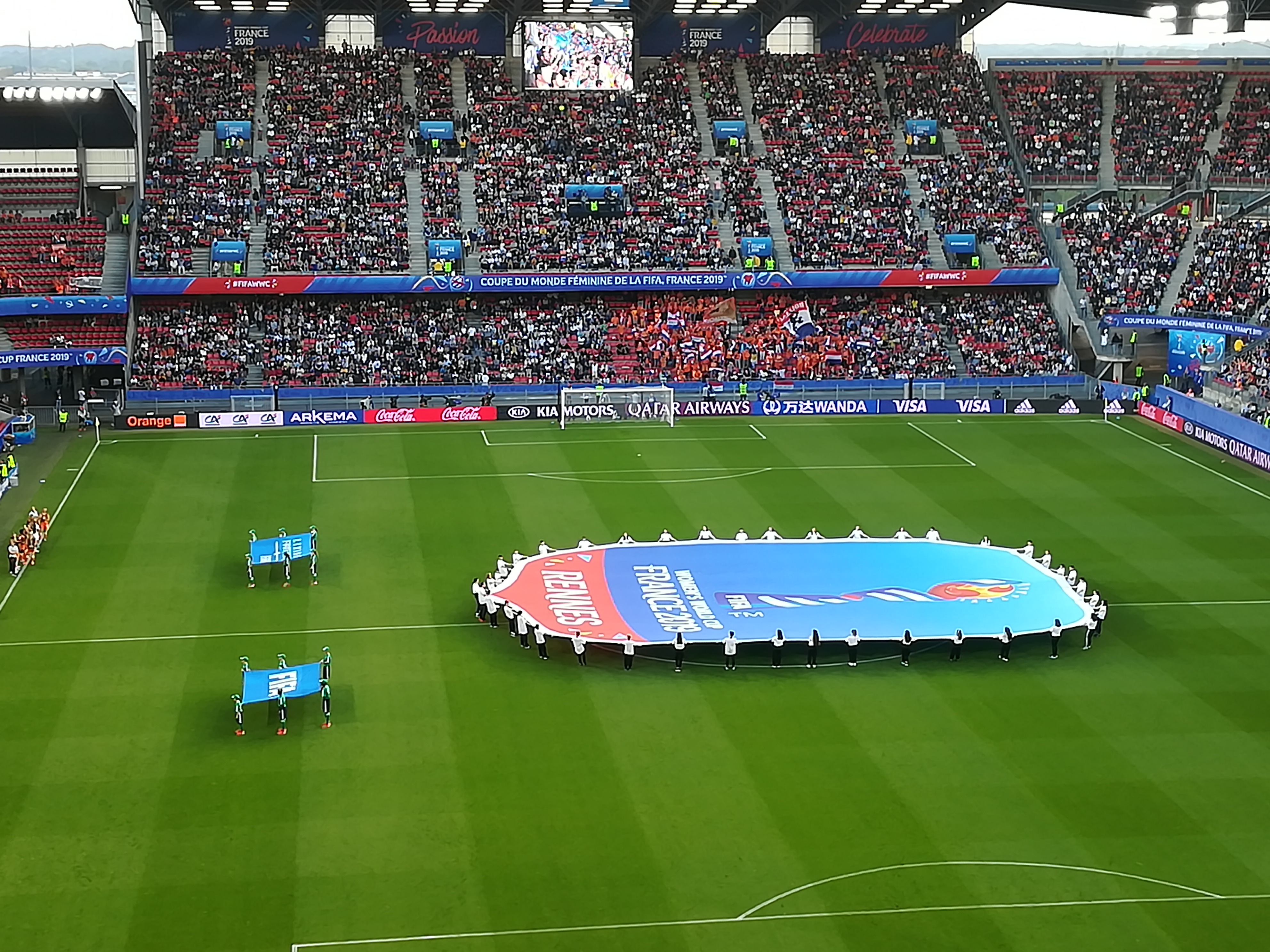 2019 FIFA Women's World Cup: round of 16 between Netherlands and Japan in Rennes on 25 June 2019.